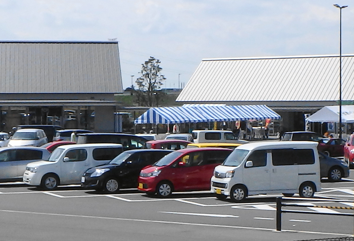 Roadside Station Hakko no sato Kozaki,Chiba prefecture,Japan